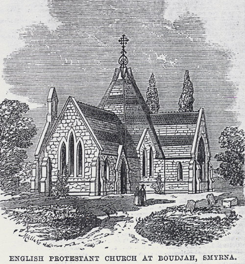 The etched image of the church published by the Illustrated London News, May 4, 1867 with the news ‘...Its erection does much credit to the zeal of the English and other Protestants of Smyrna; but they are obliged to appeal to their friends at home for assistance, as there is a debt of £500 still resting on the church; the principal cause of this debt having been the difficulty and delay in procuring workmen during the time the cholera was raging in that country in 1865. As the first Protestant church built in that ancient seat of Christianity where the apostle John resided and preached, and Polycarp suffered martyrdom, there is a peculiar interest attached to this structure, and it is suggested by our correspondent, Mr. J. Crick, the honorary treasurer, that many rich and liberal Christians in England would gladly help to liquidate the amount still due if the case was brought before them. Any subscriptions paid into the London branch of the Imperial Ottoman Bank, to the credit of the Boudjah Church Building Fund, would be thankfully acknowledged’.